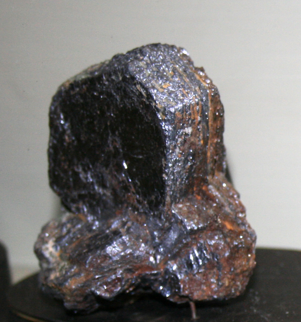 Mineral molybdenite from collection of National Museum, Prague, Czech Republic, originally from Canada